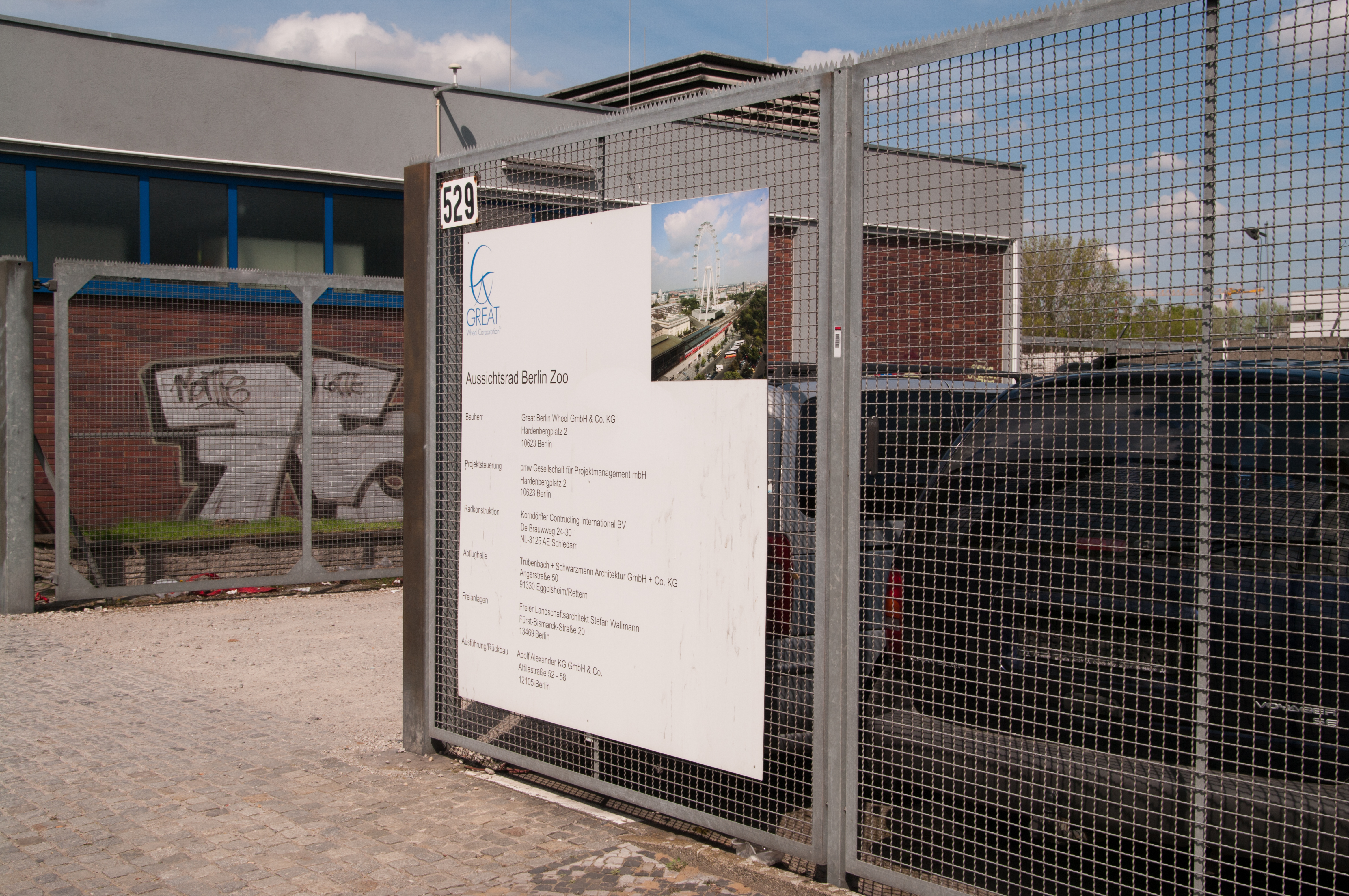 Sign advertising the never built Greet Wheel Berlin near Zoo train station.